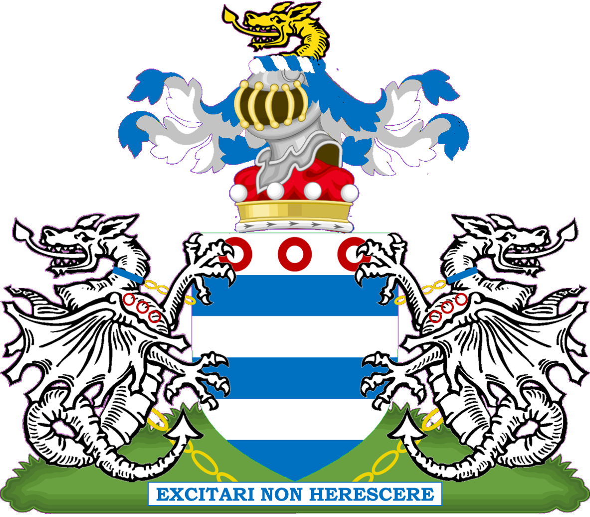 The armorial achievement of the Barons Walsingham